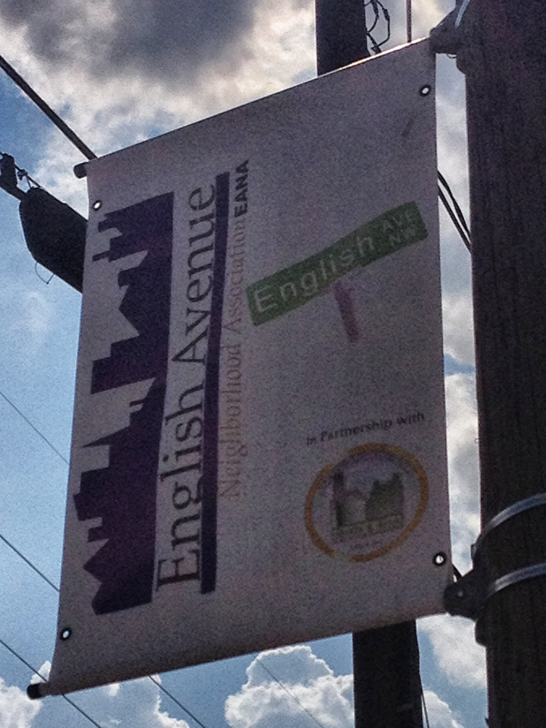 Banner on lightpost, English Avenue, Atlanta